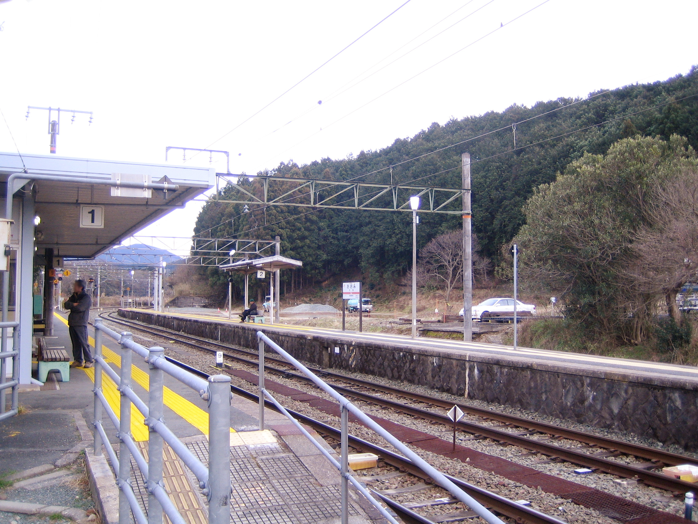 大海駅。愛知県新城市Omi Station (大海駅 Ōmi Eki), located in Shinshiro, Aichi, Japan